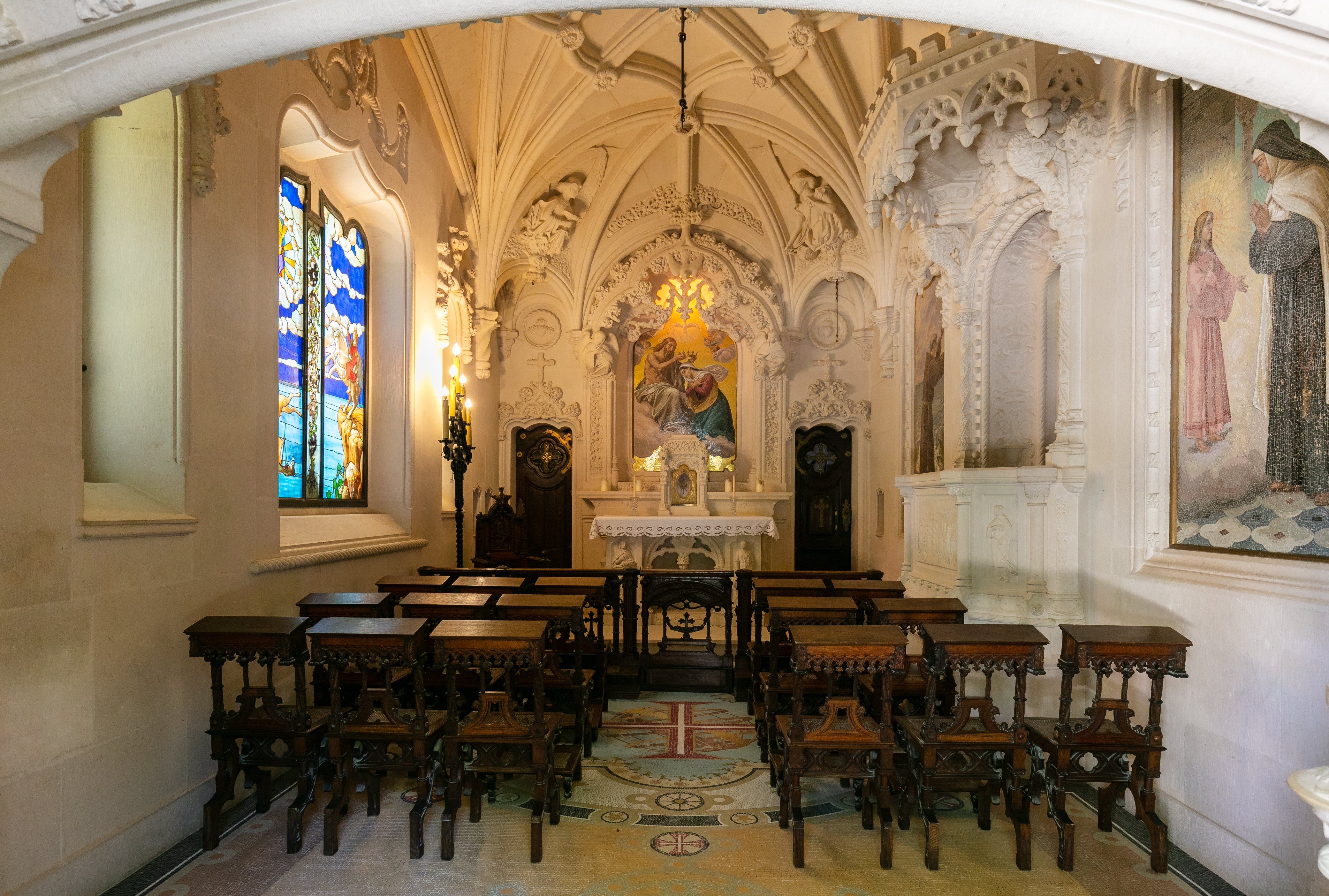 Quinta da Regaleira, Sintra, Portugal